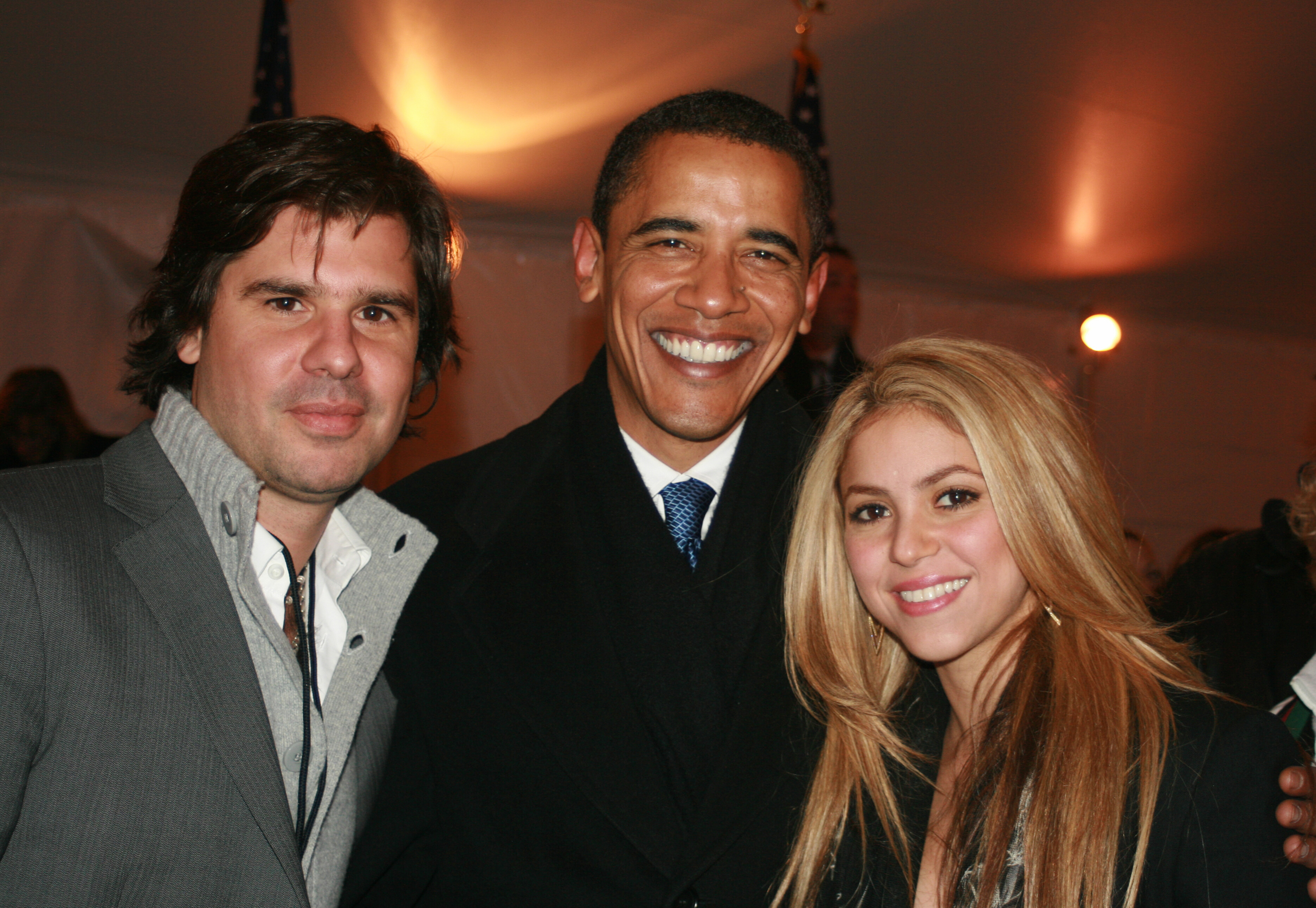 Shakira and her fiancee, Antonio de la Rúa, with President Obama